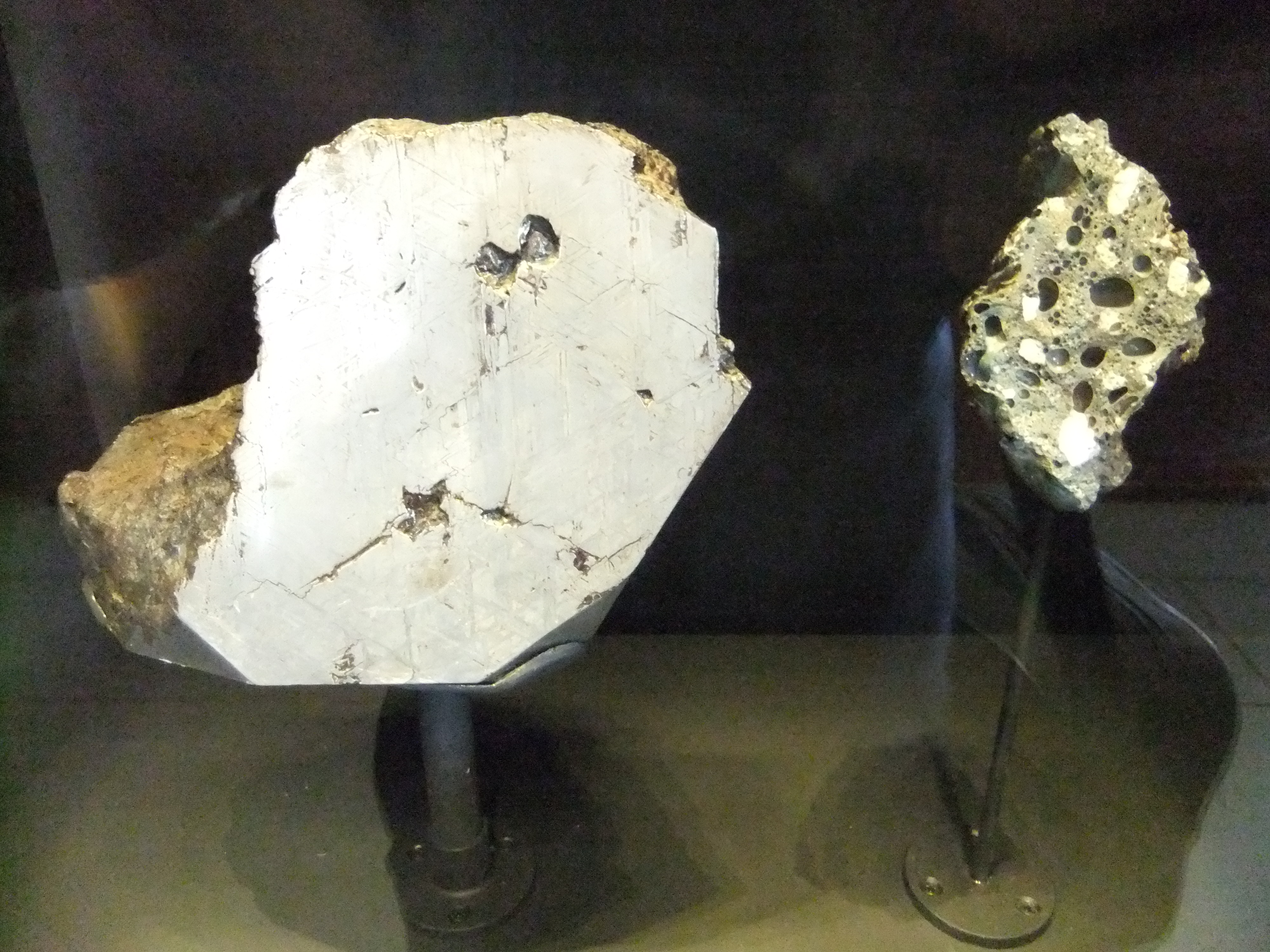 Hraschina meteorite on display at the Natural History Museum, London.